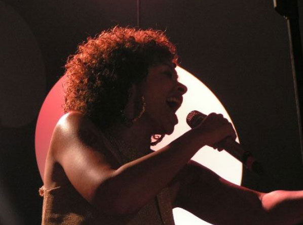 Joy Denalane live in Munich